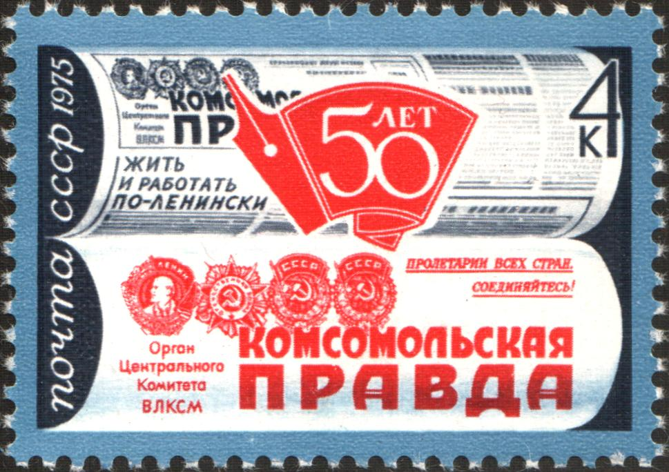 Anniv. 50 years Komsomolskaya Pravda. Post of USSR 1975.